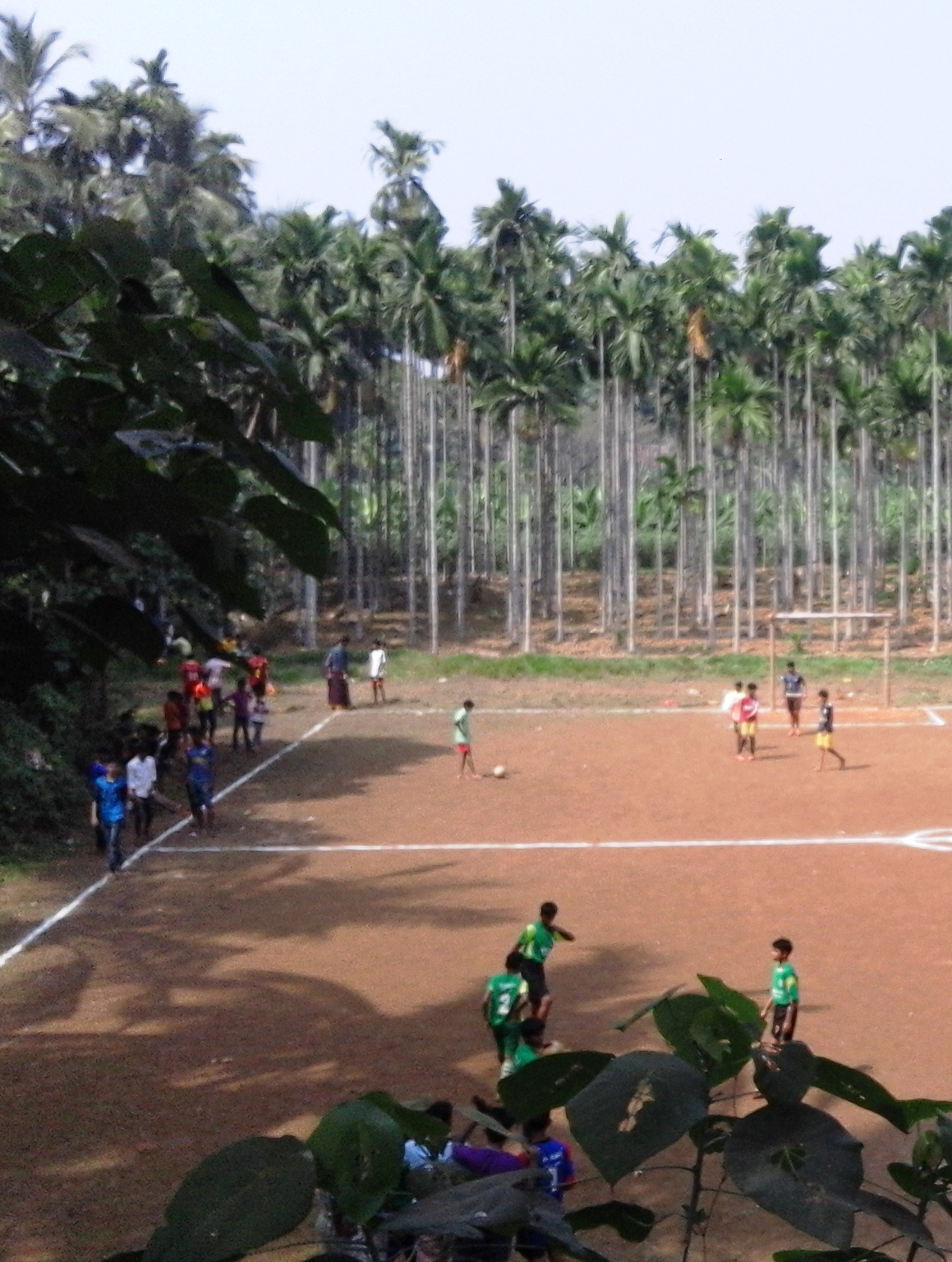 Edavannappara, Kondotty, Malappuram District, Kerala, India.